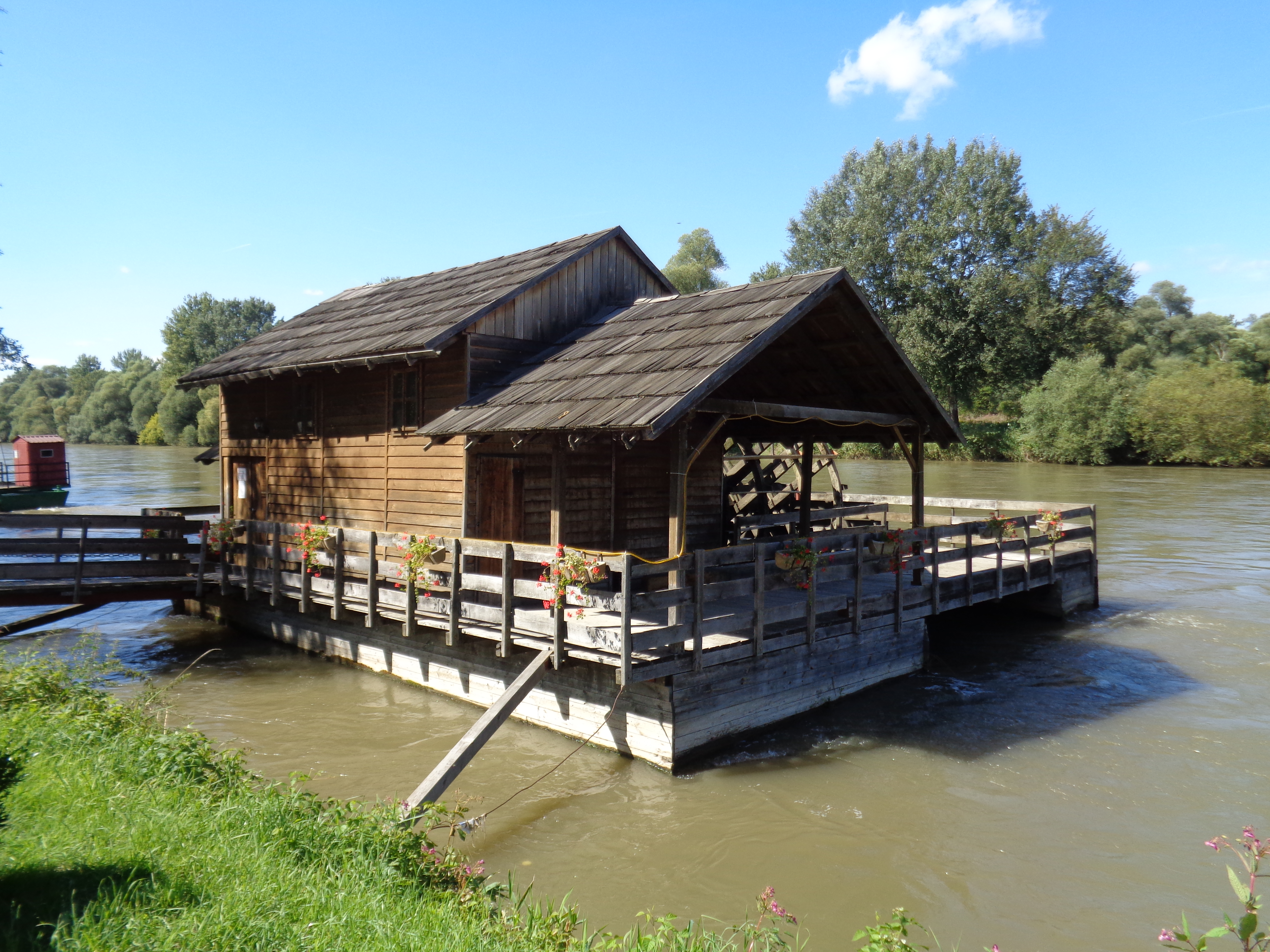 Watermill on the Mura river, Žabnik, Sveti Martin na Muri Municipality, Medjimurie County, Croatia - southeast view